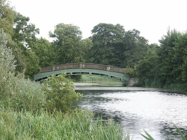 The Iron Bridge in Culford, Suffolk, England. A Grade I listed bridge.